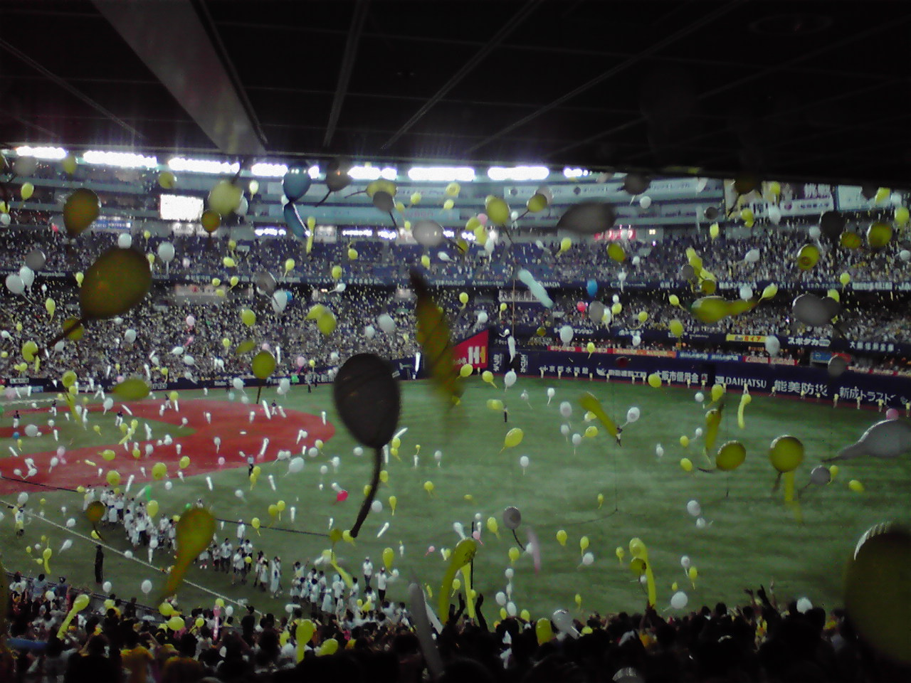 The traditional balloons launched by the Hanshin's fans in the 7th inning at Kyocera Dome, Osaka